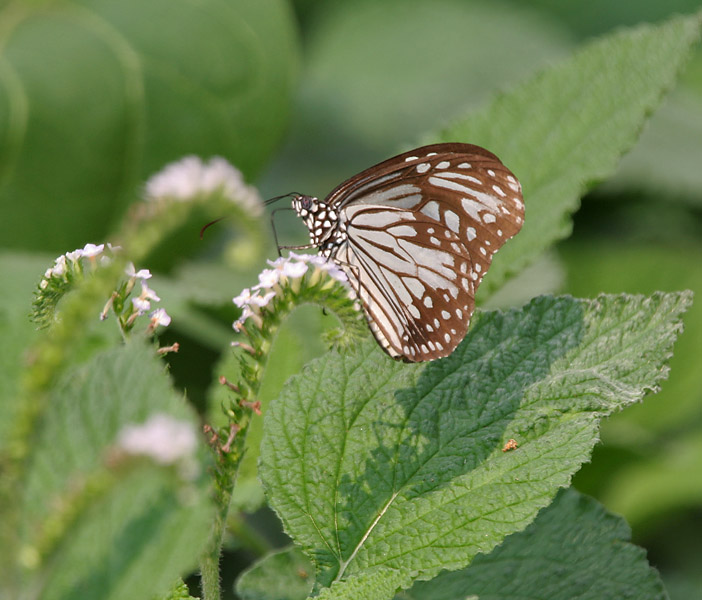 Glassy Tiger Parantica aglea at Jayanti in Buxa Tiger Reserve in Jalpaiguri district of West Bengal, India.